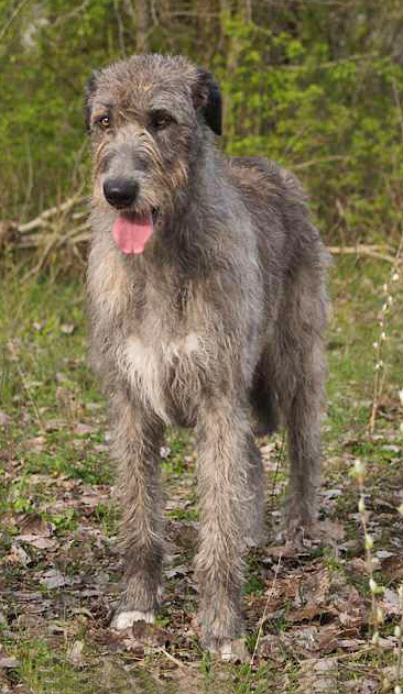 Agripinne, Irish Wolfhound, pror. Muriel Diot